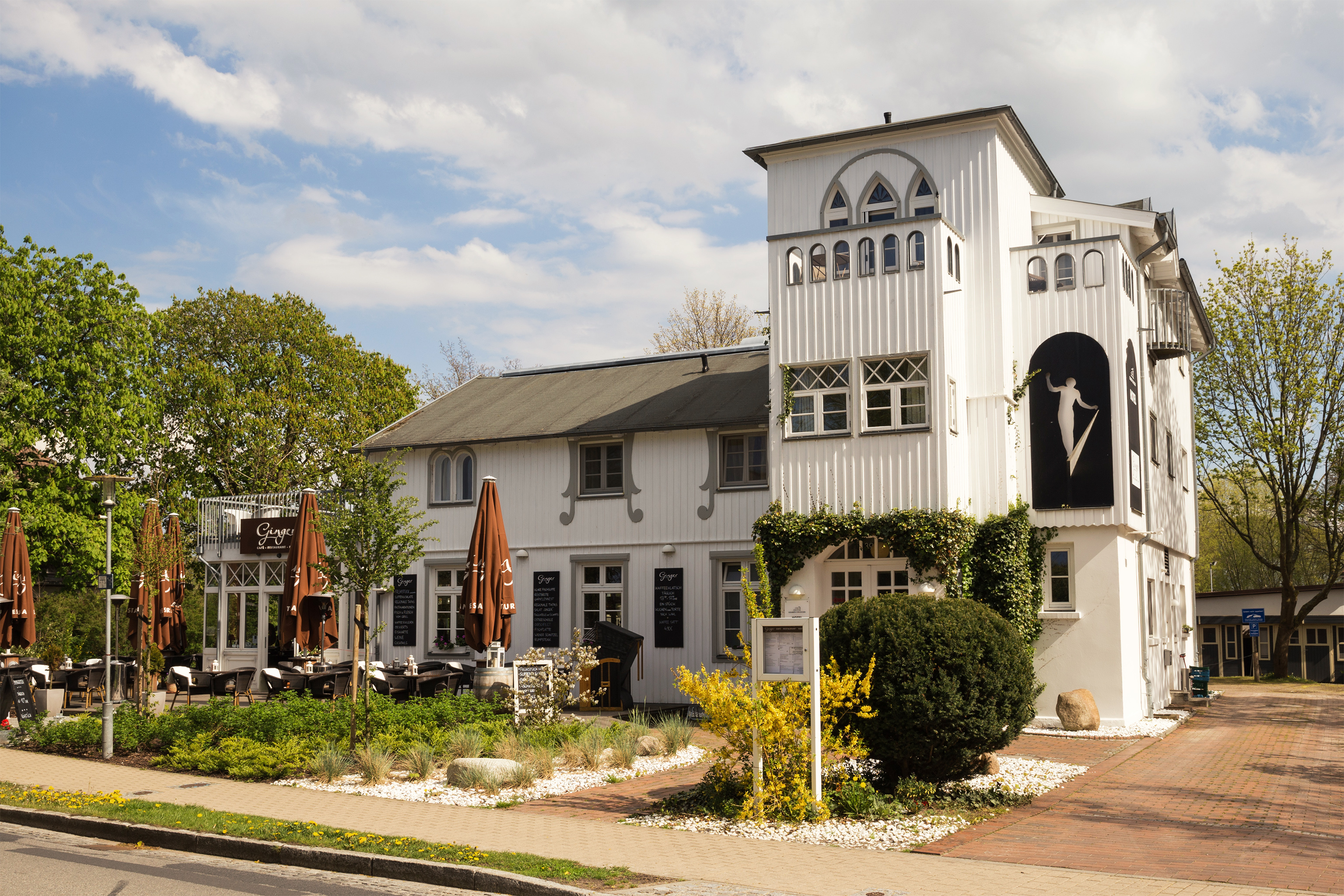 Ahrenshoop, Villa "Elisabeth von Eicken", Dorfstraße 39, cultural heritage monument